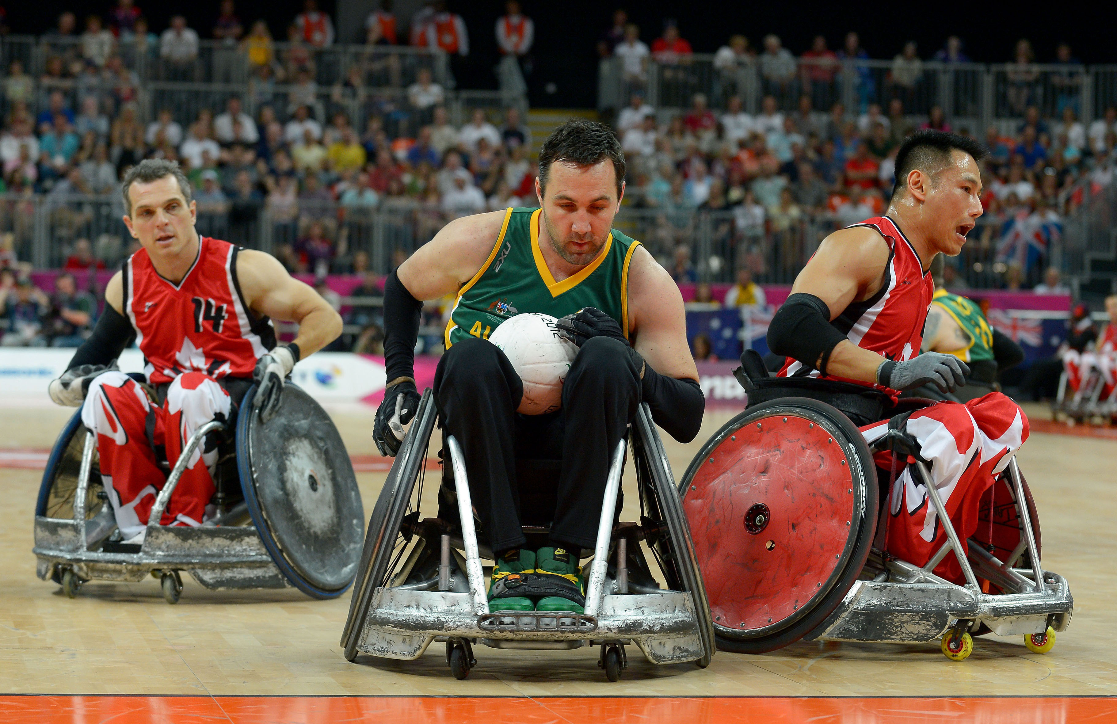 Photograph of Australian Paralympic team member Cameron Carr at the 2012 Summer Paralympic Games in London